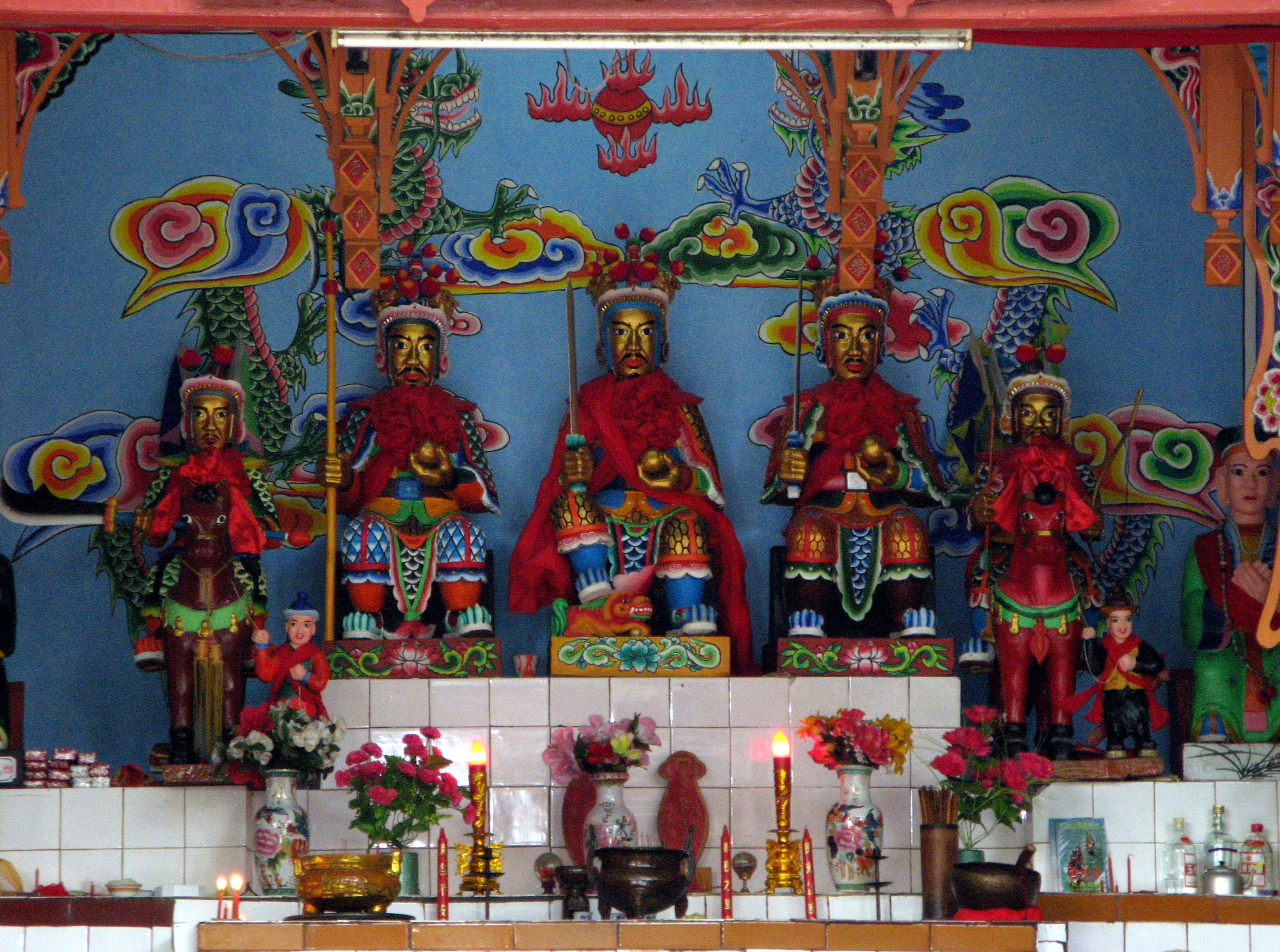 Three Star Gods Temple. Golden Shuttle Island, Dali The Three Star Gods (Sanxing) of the temple, whose seated statues are shown here, are Fu Xing (Good Fortune), Lu Xing (Prosperity), and Shou Xing (Longevity). The temple is also interesting as an example of local village worship. Generally speaking, the local god of a village is often a local hero (that is, a real live person), who at some point after death became deified, and from then on was worshiped as the protector of the village.